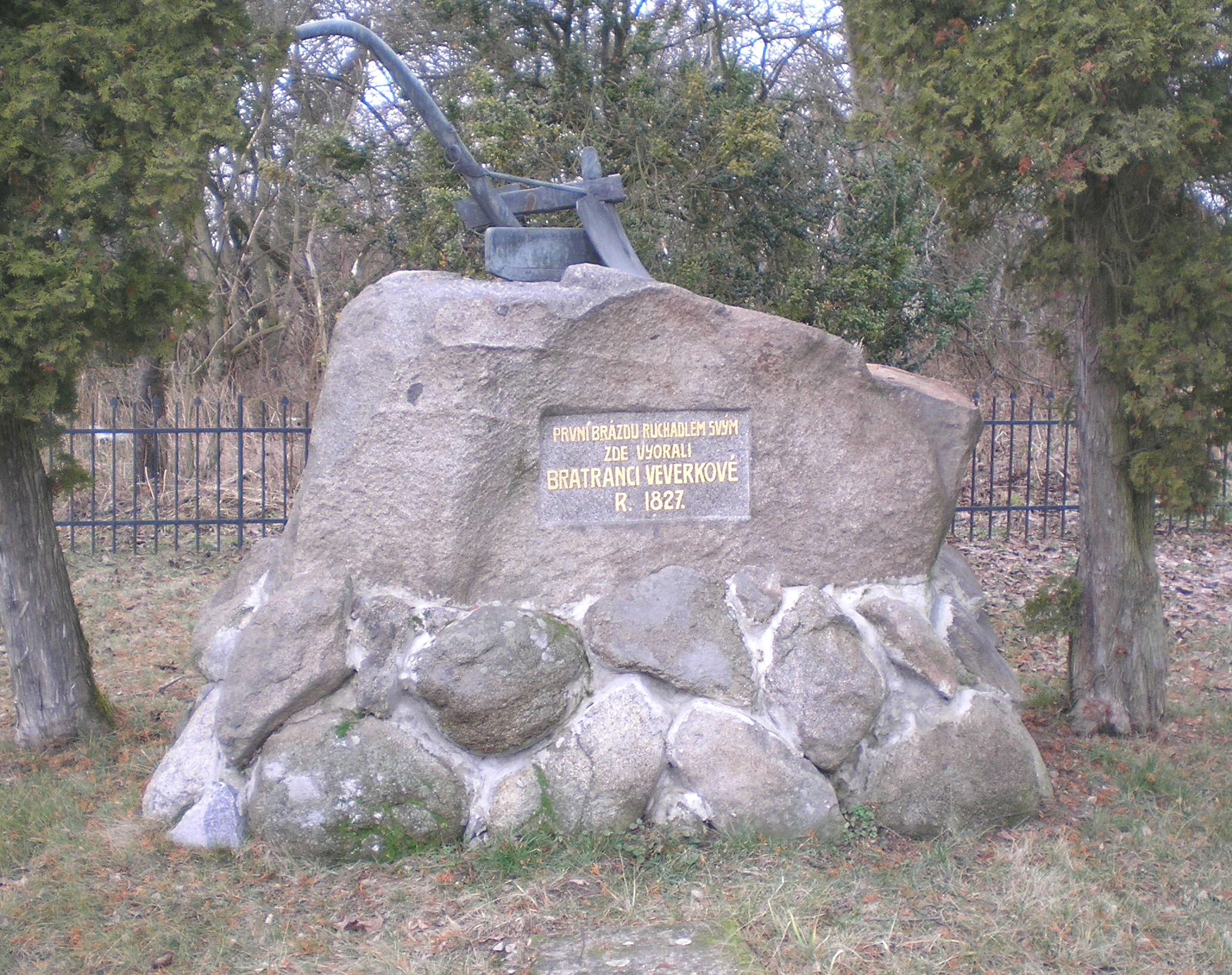 Cousins Veverka, Sculpture in Rybitví